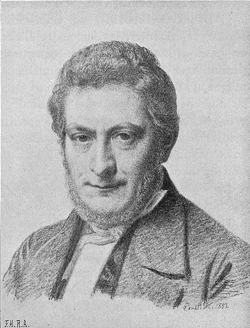 Jens Finsteen Giødwad. 1811-1891.